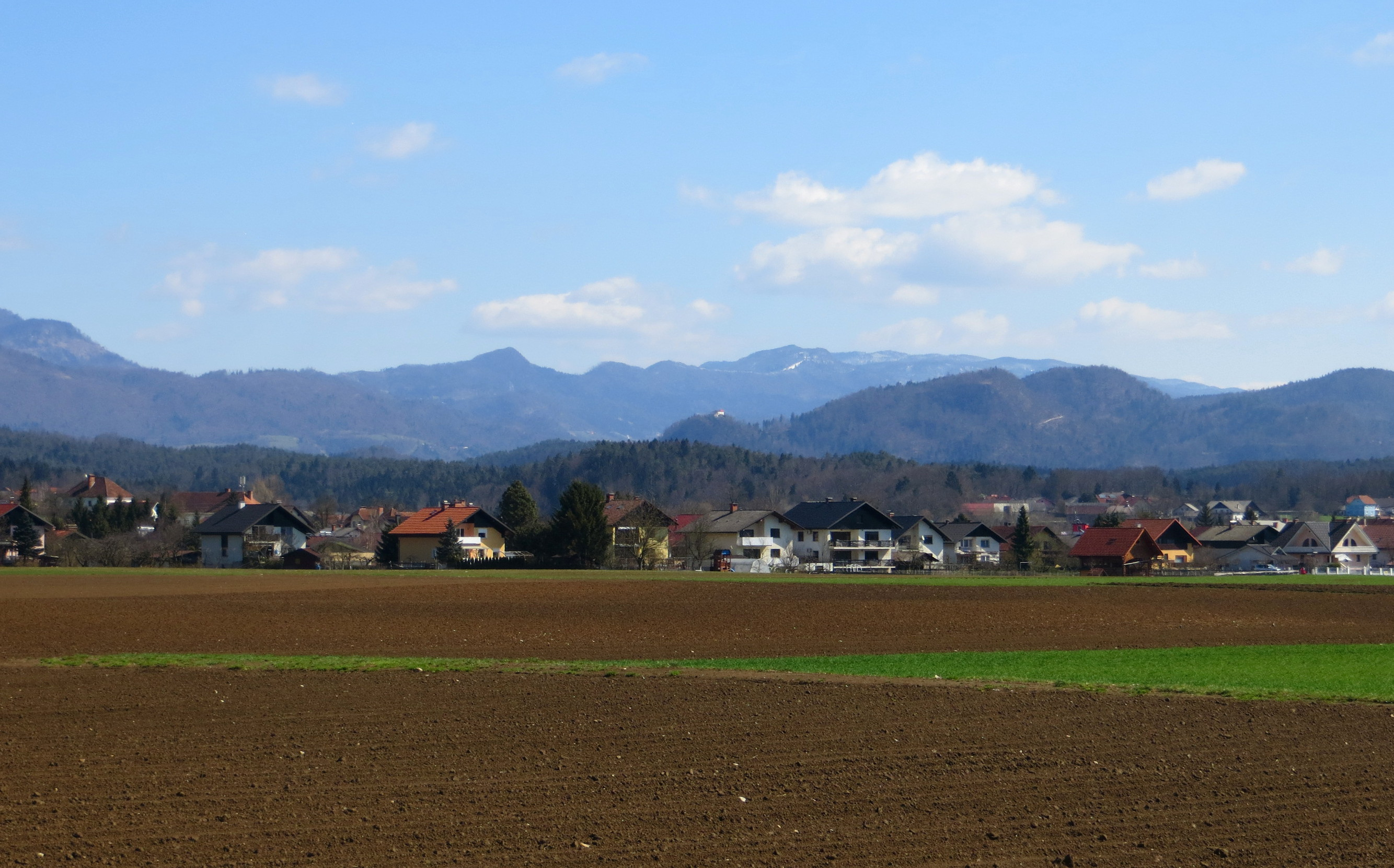 Komenda, Municipality of Komenda, Slovenia